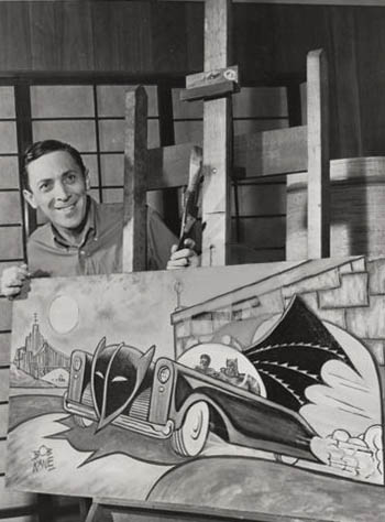 Photo of Batman creator, Bob Kane.